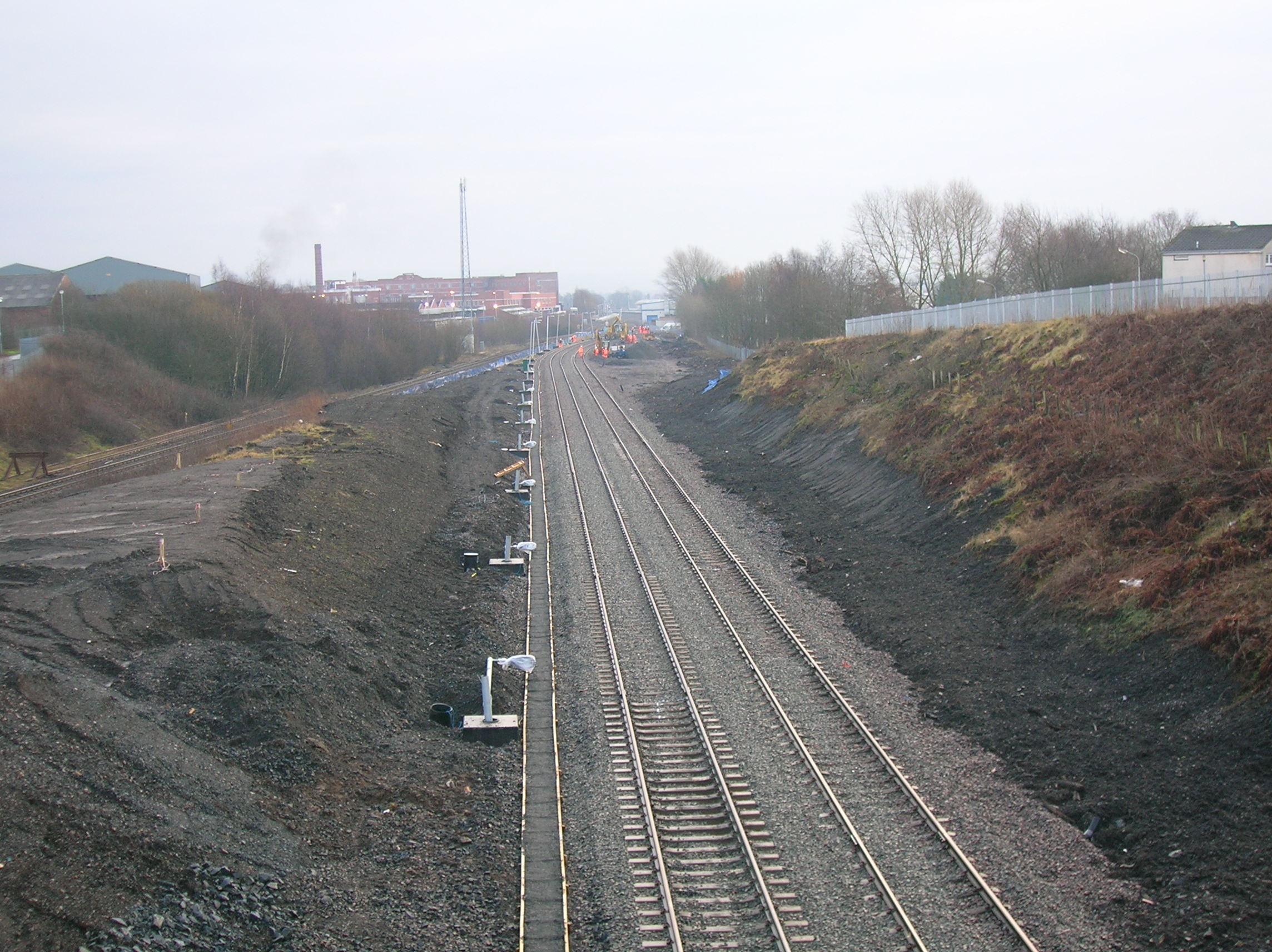 New coal sidings at Kilmarnock on the old G&SWR route formation to Dalry. Diageo - Johnnie Walker buildings to the left in the distance.